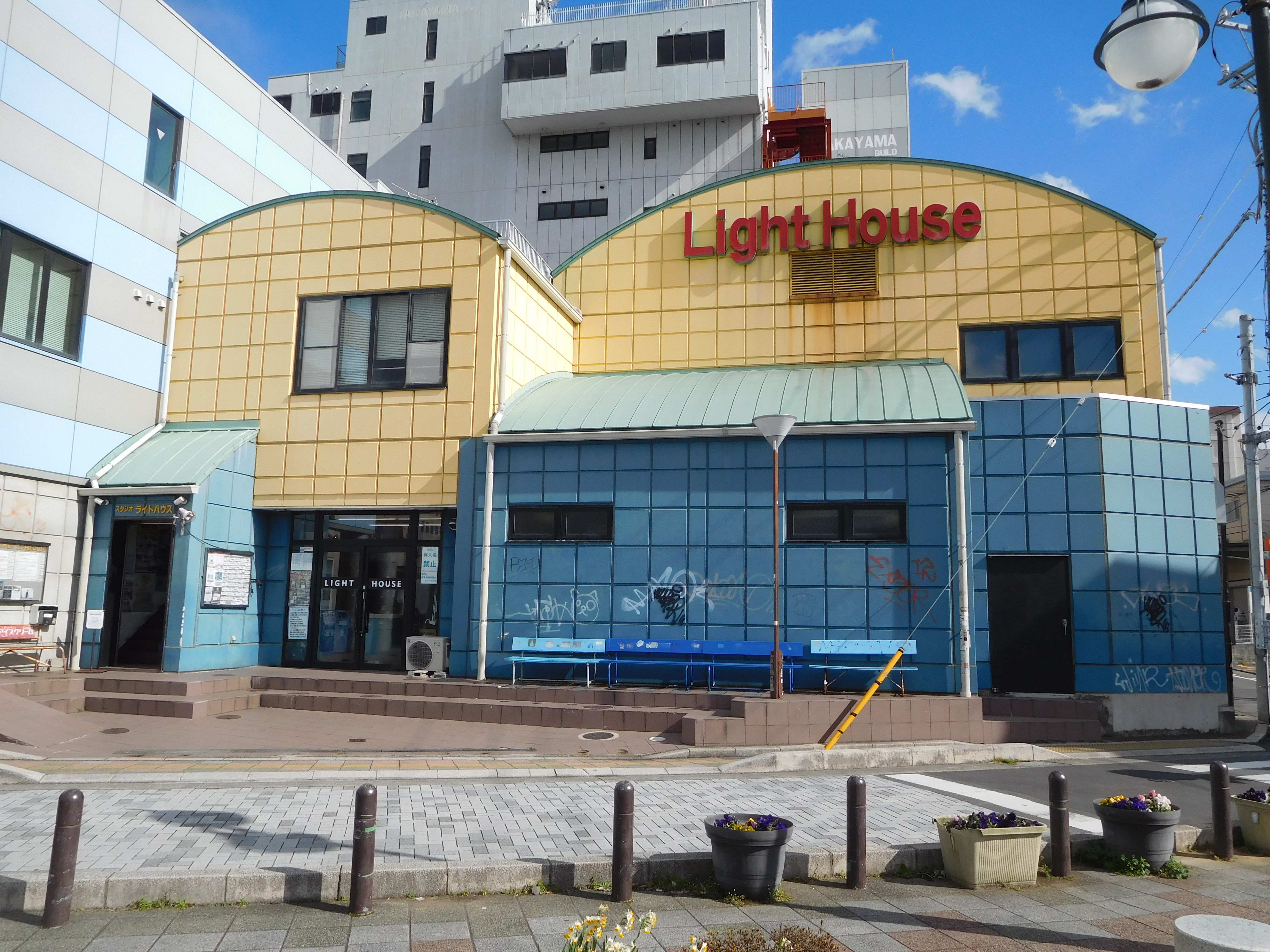 This is a concert hall "Mito Light House" in Mito, Ibaraki, Japan.